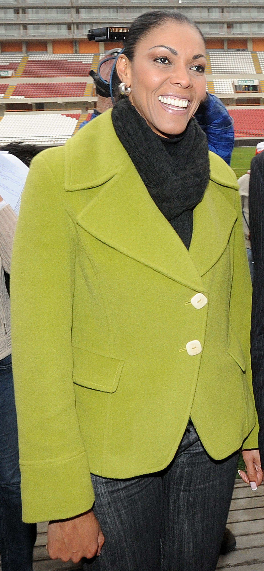 A surprising visit was made by the President of the Congress of the Republic, Daniel Abugattás Majluf, to the facilities of the National Stadium, where he noted that the remodeling works are unfinished in the premises of the 16 sports federations. He was accompanied by Congresswoman Cenaida Uribe and sports leaders.